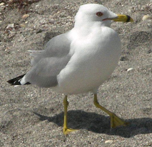 Ring-billed Gull (Larus delawarensis) at Casperson Beach, Venice, FL, USA